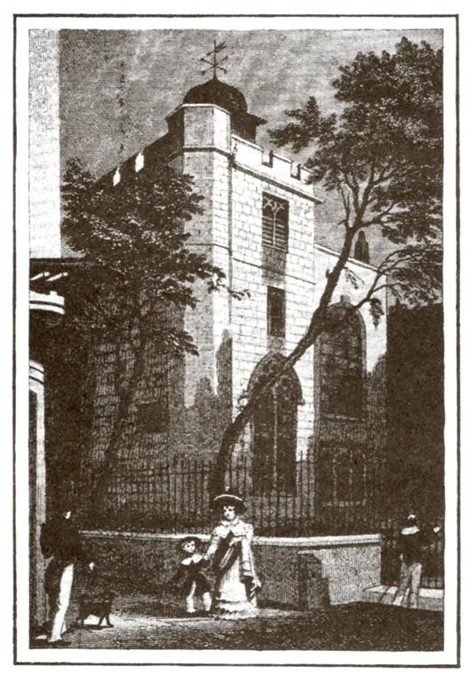 An engraving of All Hallows Staining and Rectory in London, England in approximately 1800.